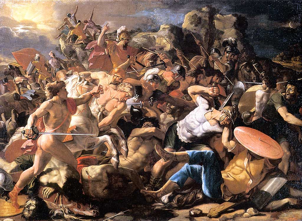 Pendant to The Victory of Joshua over the Amalekites in St. Petersburg.